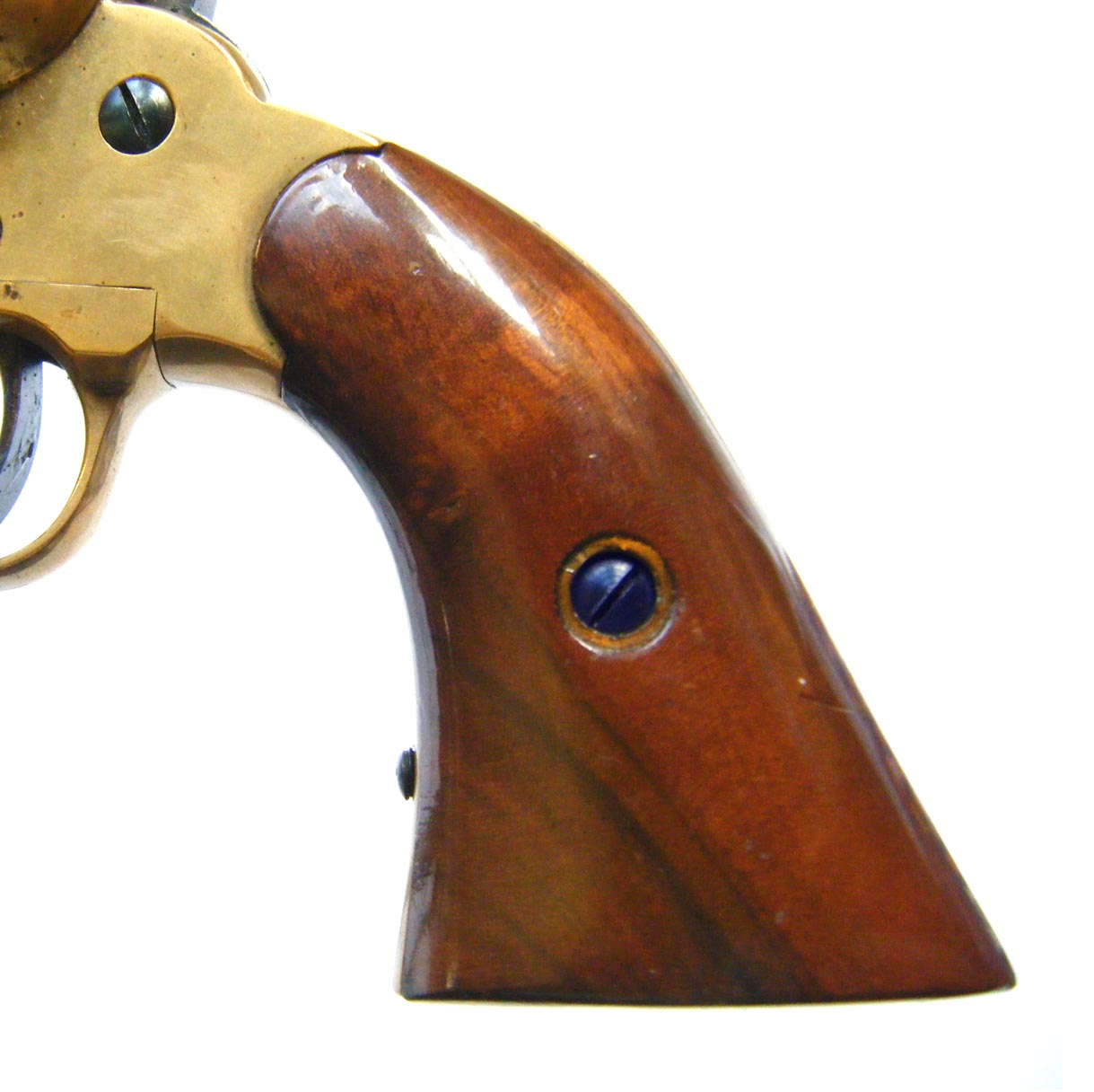 Handle of Remington 1858